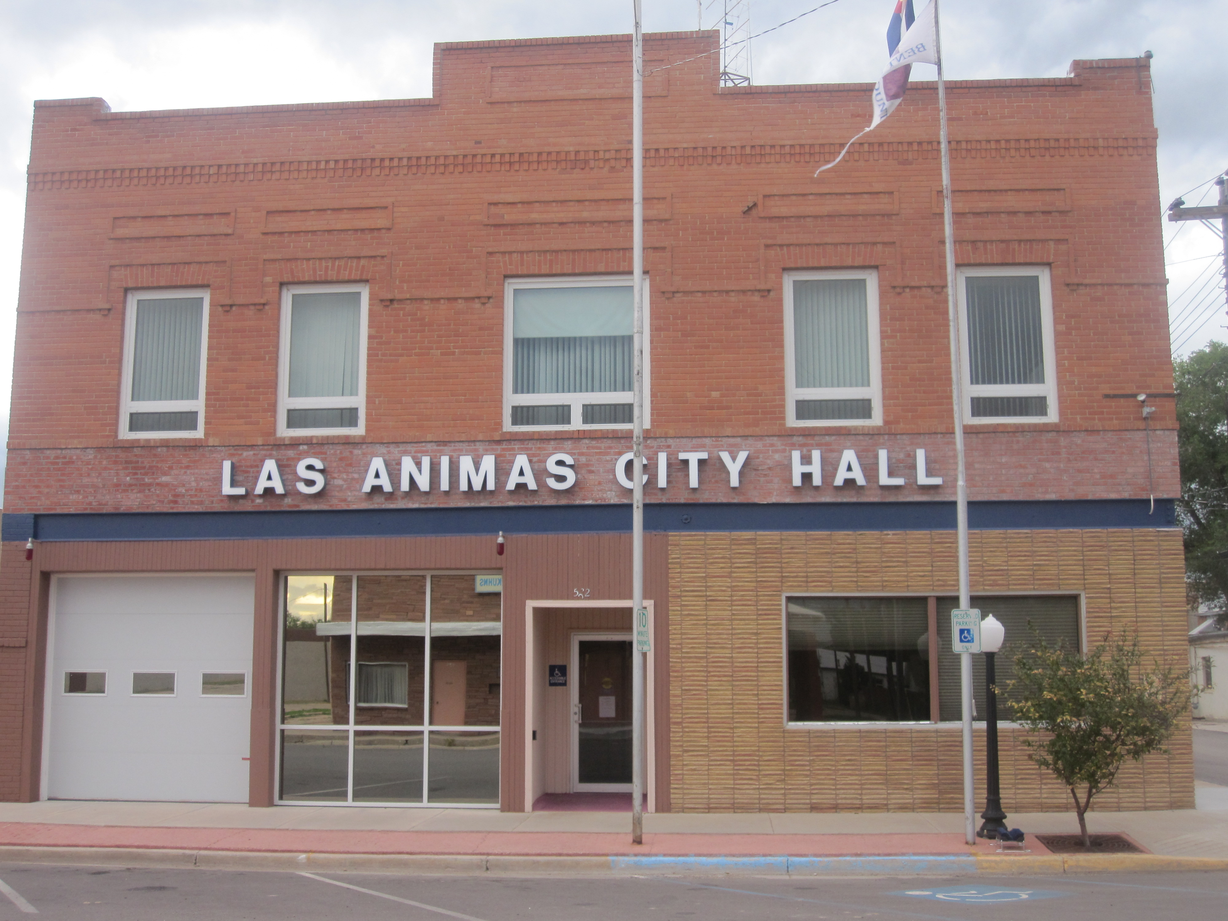 I took photo with Canon camera in Las Animas, CO.